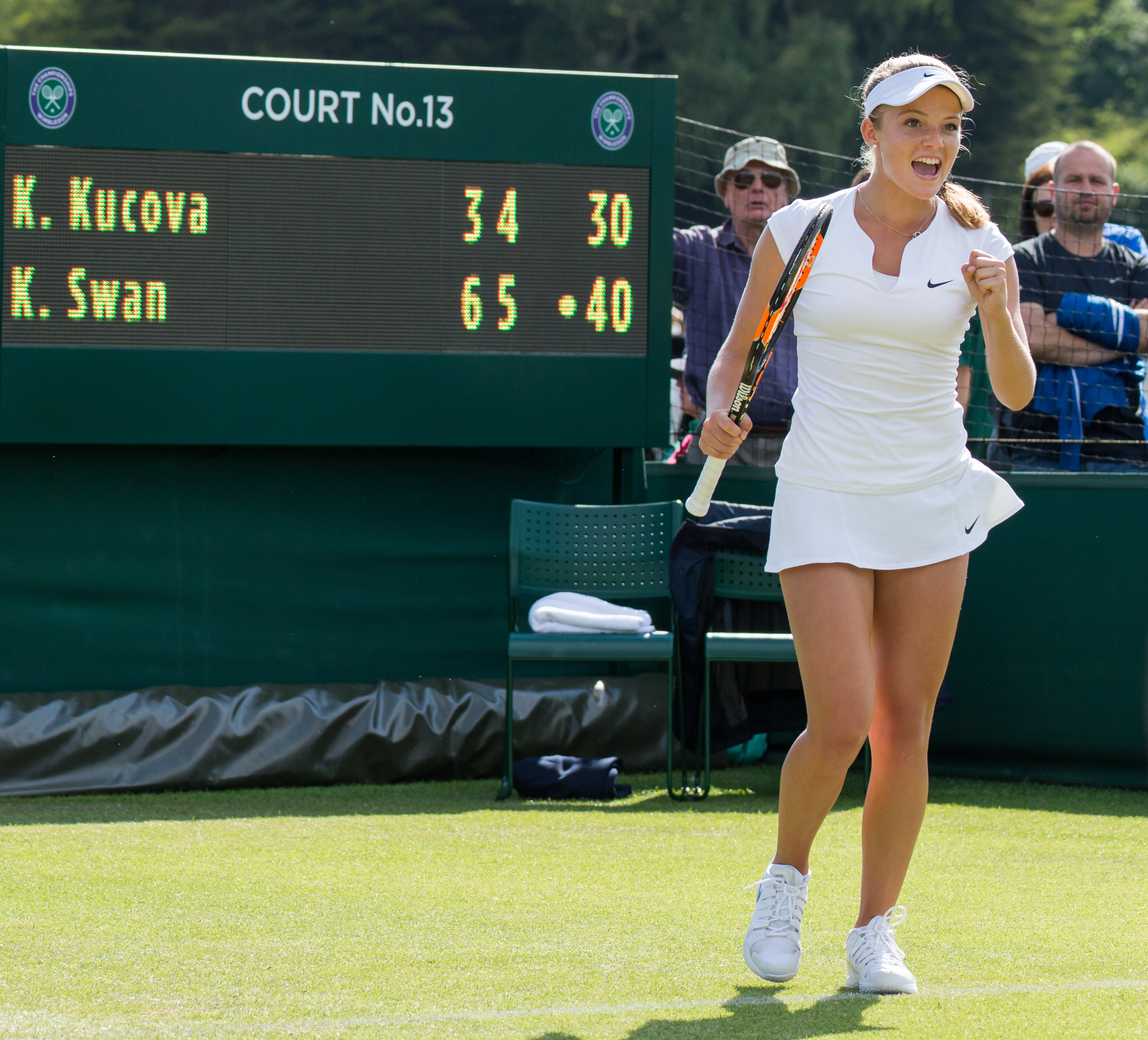 Katie Swan competing in the first round of the 2015 Wimbledon Qualifying Tournament at the Bank of England Sports Grounds in Roehampton, England. The winners of three rounds of competition qualify for the main draw of Wimbledon the following week.